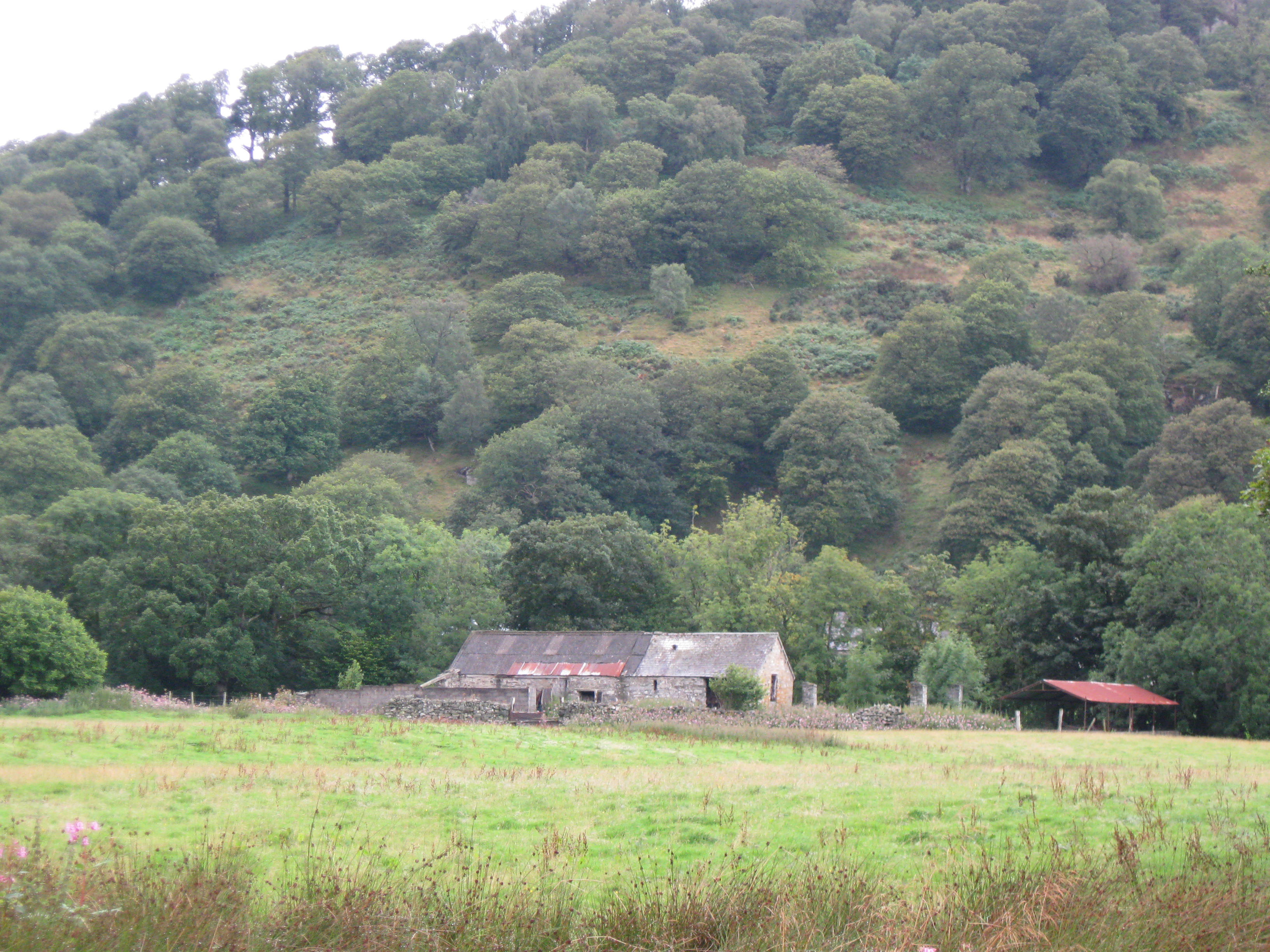 View of Roman Fort at Caer Llugwy.